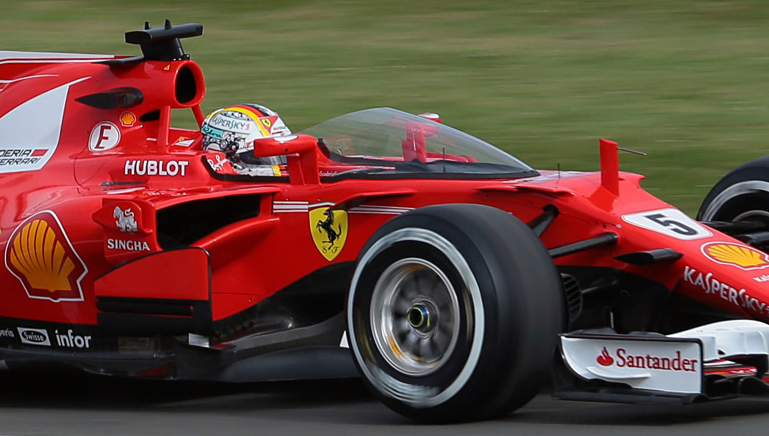 Scuderia Ferrari's driver Sebastian Vettel tests the 'Shield' frontal cockpit protection system, on his Ferrari SF70H, during the weekend of the 2017 British Grand Prix at Silverstone.